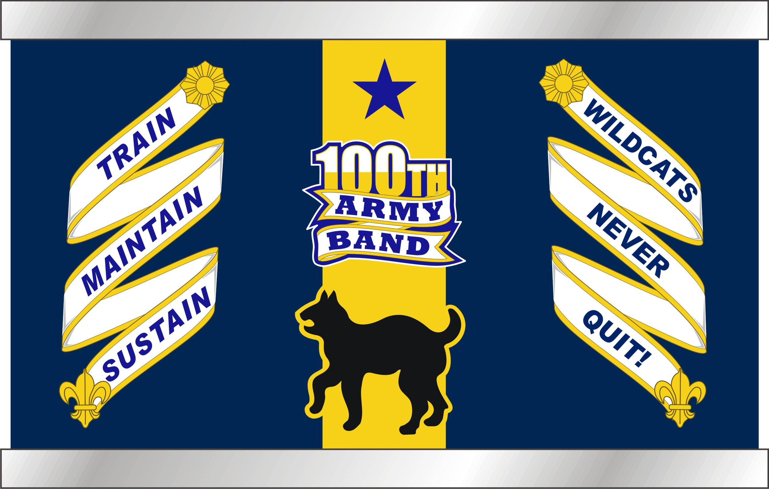 100th Army Band drum